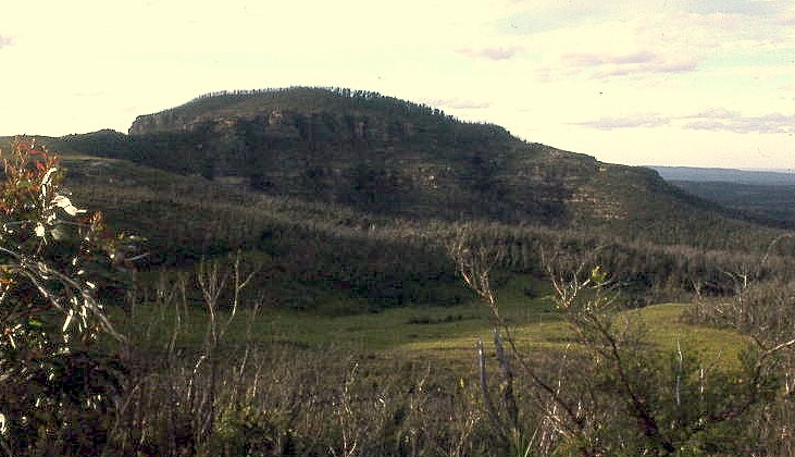 mt hay, blue mts, australia